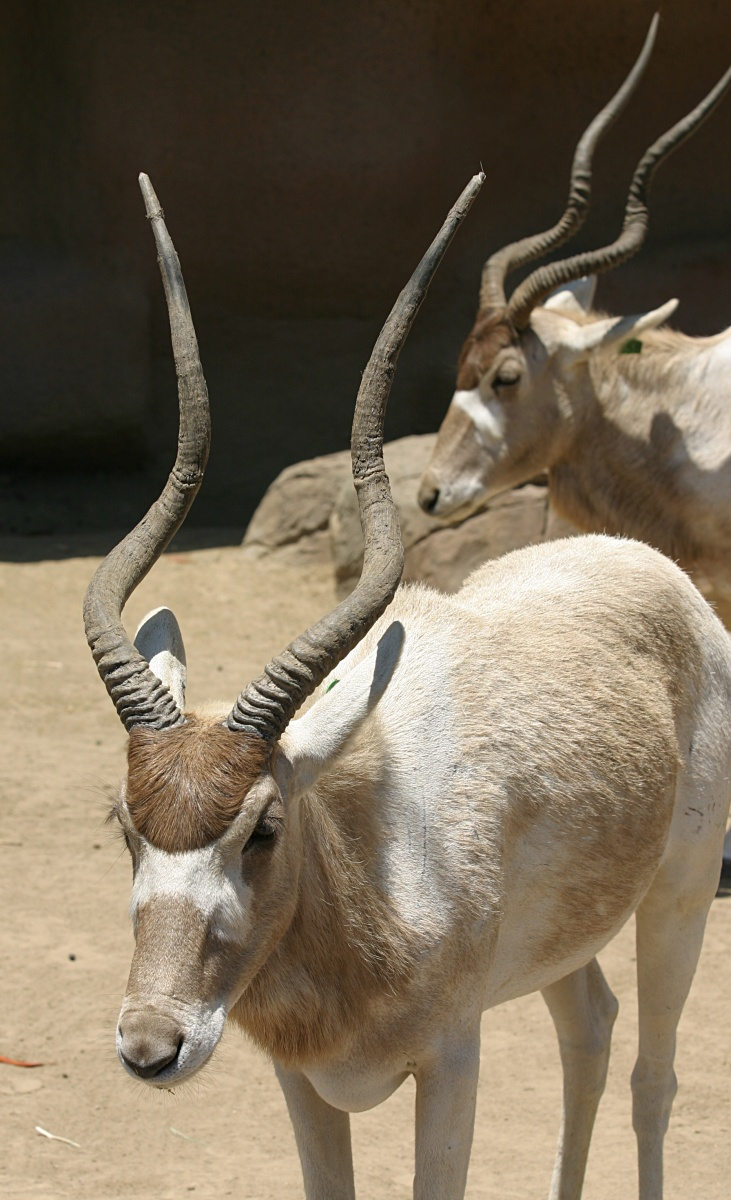 A couple of Addax at the San Diego Zoo in San Diego, California, USA.